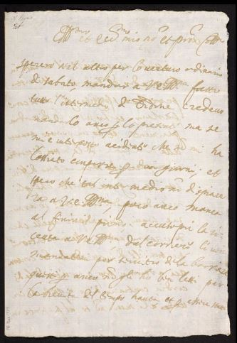 Letter from Claudio Monteverdi to Enzo Bentivoglio, 18 September 1627. (British Library, MS Mus. 1707)